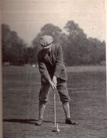 A circa 1911 photo of English golfer Abe Mitchell in perfect setup position to his a fairway wood shot.